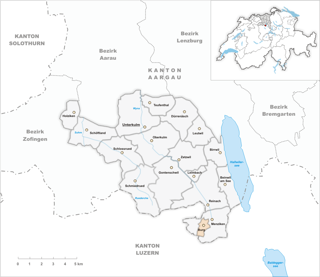 Municipality Burg